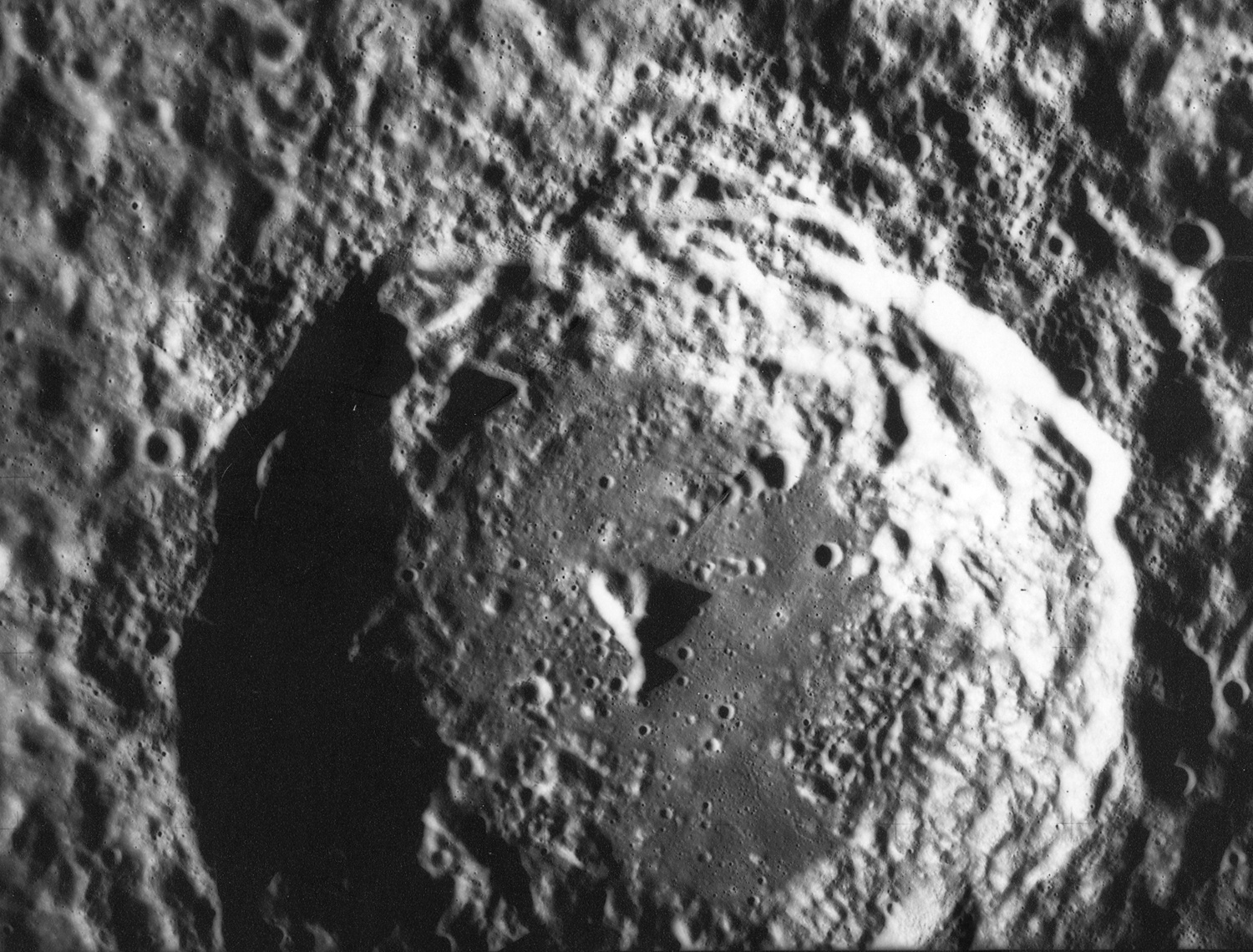 Most of Scaliger crater, on the far side of the moon